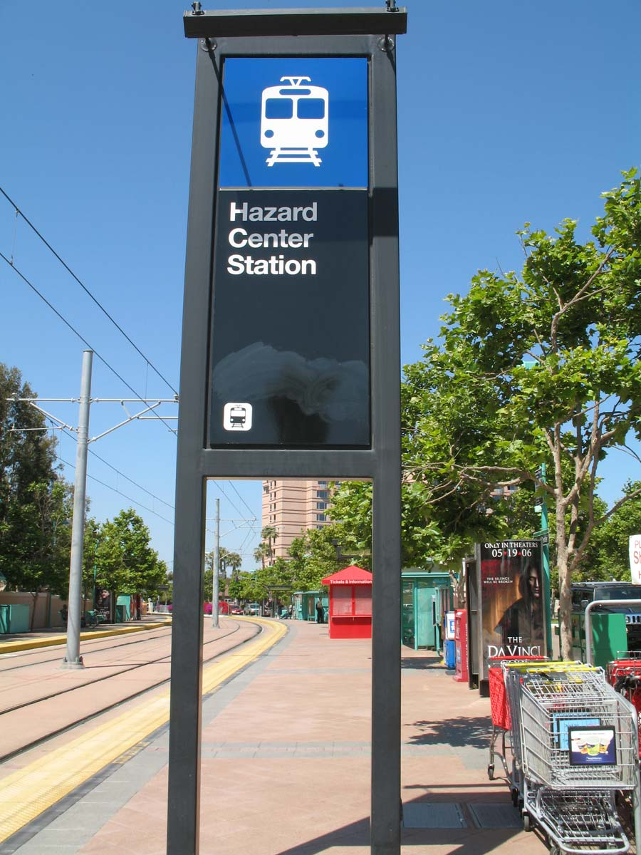 Hazard Center Trolley Blue line Station